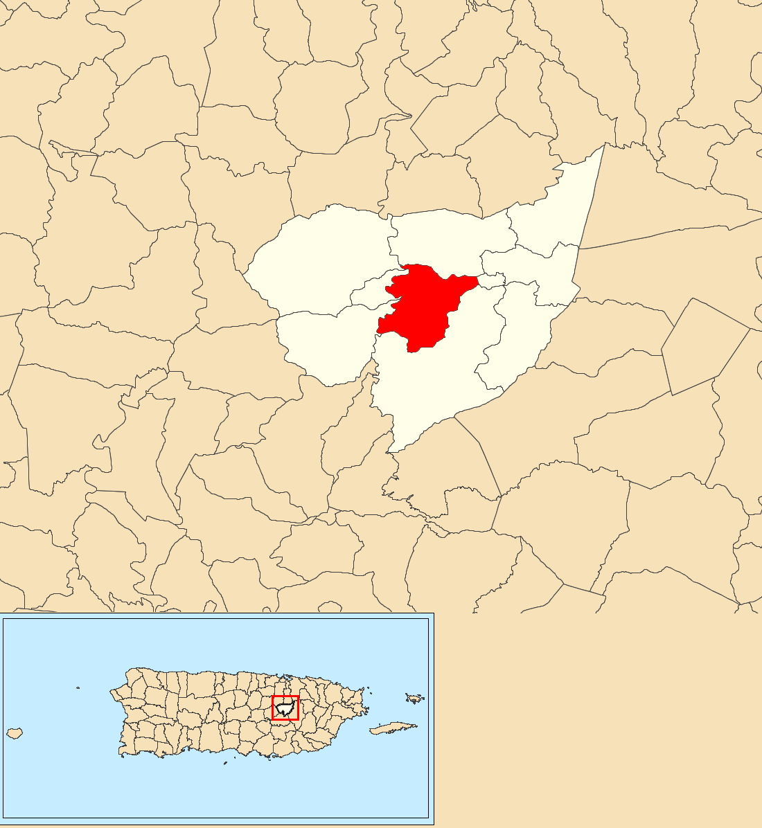 Mula, Aguas Buenas, Puerto Rico locator map